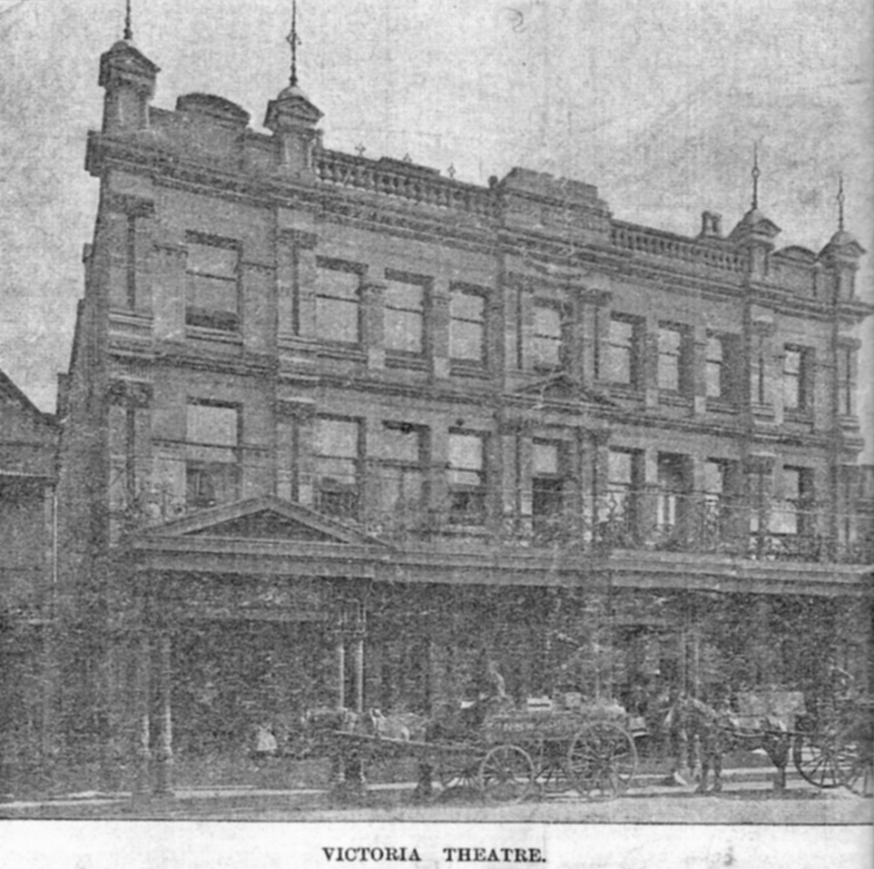 The Victoria Theatre on Perkins Street, Newcastle.